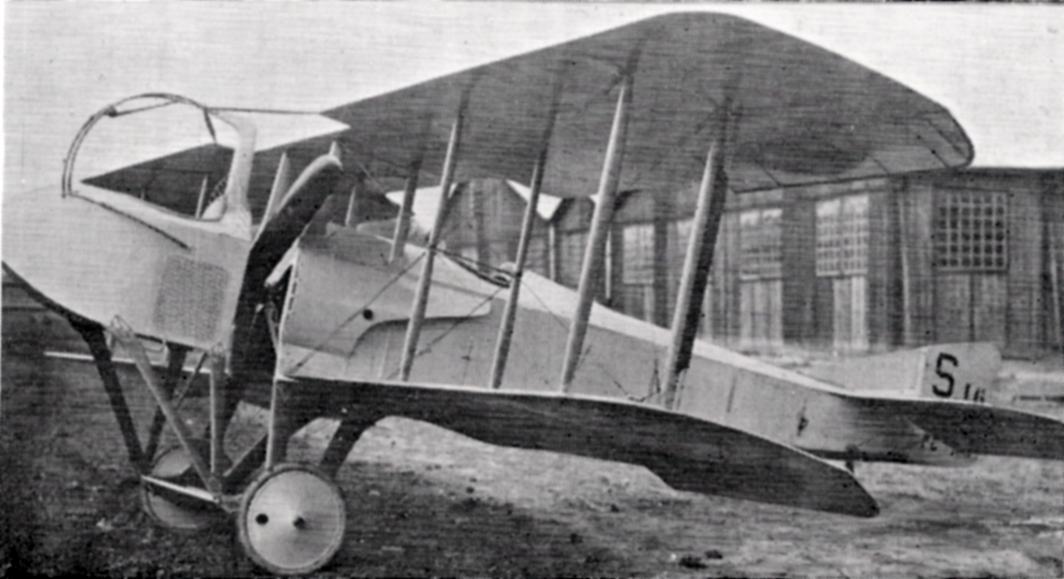 French Photograph taken 100 years ago during First World War of service aircraft. At this time unofficial photography of ships, aircraft, tanks, marching troops etc. was very strictly forbidden, and an assumption can be made that any such photography was either official (and typically government copyright can be considered to have expired by a fair margin after 100 years) or unofficial, in which case it was originally taken quite illegally, and cannot be said to have been ever under a "copyright" law at all (has one copyright over an illegally acquired image??) In fact an image this old (100 years) - even if none of the above were relevant, can be reasonably assumed to be out of copyright anyway. This particular image has appeared in several published works, going back at least 50 years. None of these previous publications give any clue as to original provenance of the image. The oldest previous publication of the image I can find is: Cheesman, E.F. (ed.) Fighter Aircraft of the 1914-1918 War, Letchword (UK), Harleyford Publications, 1960. In this source, while a general acknowledgement for photographs is given, there is no specific clue as to the provenance or "ownership" of this (or any other) particular image. Please, could the important and necessary job of cleaning non-free images from Wiki be entrusted in future to humans with sufficient historical (and common) sense to distinguish between the obviously non-copyright and images that might be copyright??? As originally stated - original provenance unknown - taken in 1915 or 1916. --Soundofmusicals (talk) 19:45, 3 September 2010 (UTC)